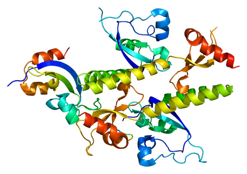 Structure of the CHD1 protein. Based on PyMOL rendering of PDB 2b2t.